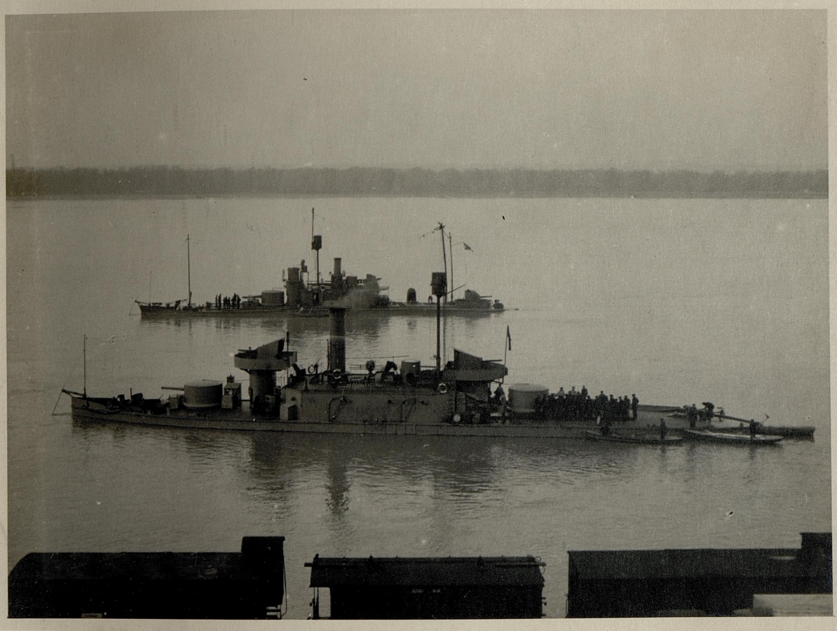 Monitors of Austria-Hungary on Russe in 1916: SMS Körös (forward) and SMS Leitha (behind)